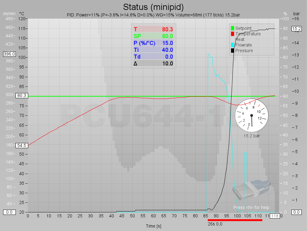 faustino status monitor